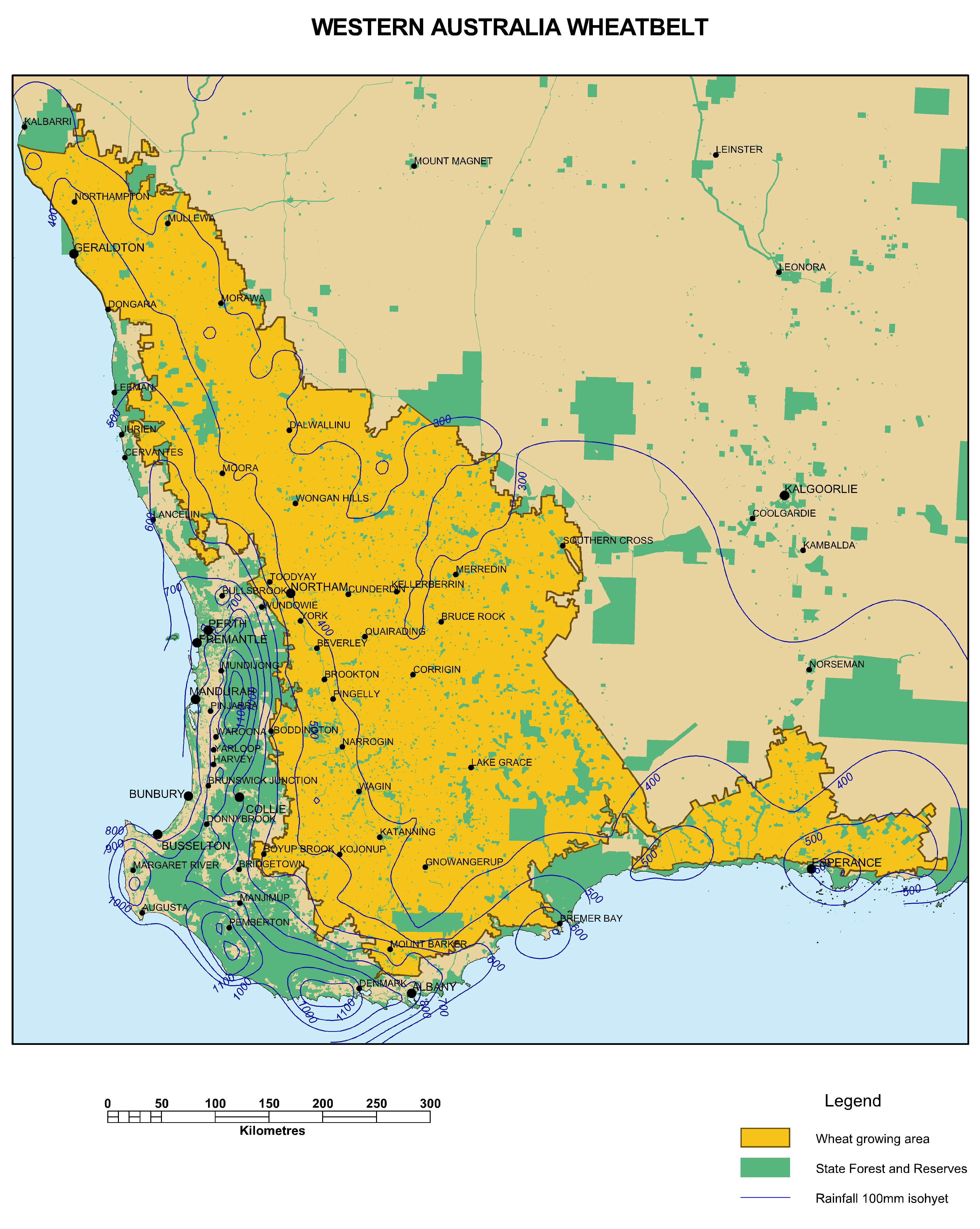 DAFWA Reference Library Map - Wheatbelt of Western Australia